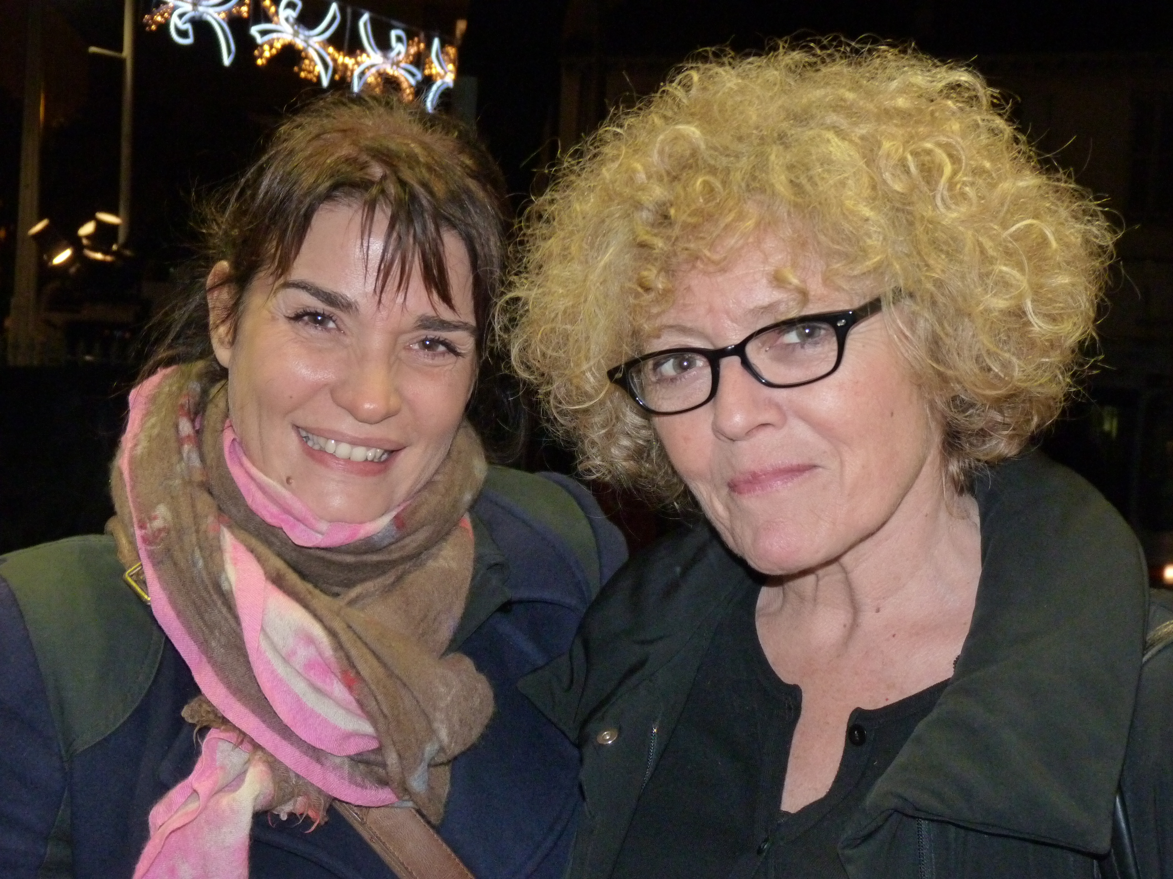 Christine Citti and Jeanne Labrune at the 25th Cinematic Encounters of Cannes.